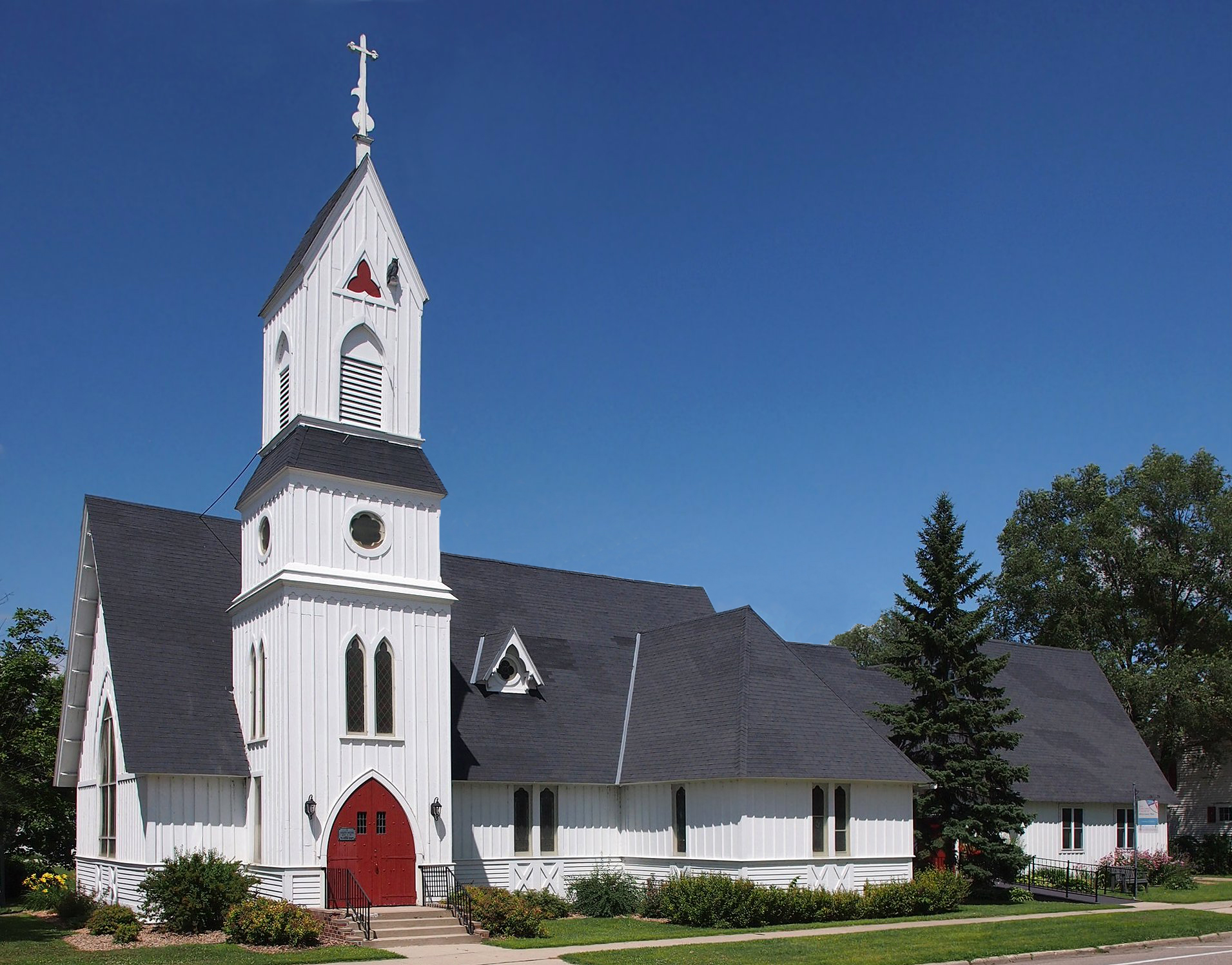 Trinity Episcopal Church, 400 N Sibley Ave, Litchfield, Minnesota, USA. Viewed from the south-southwest.